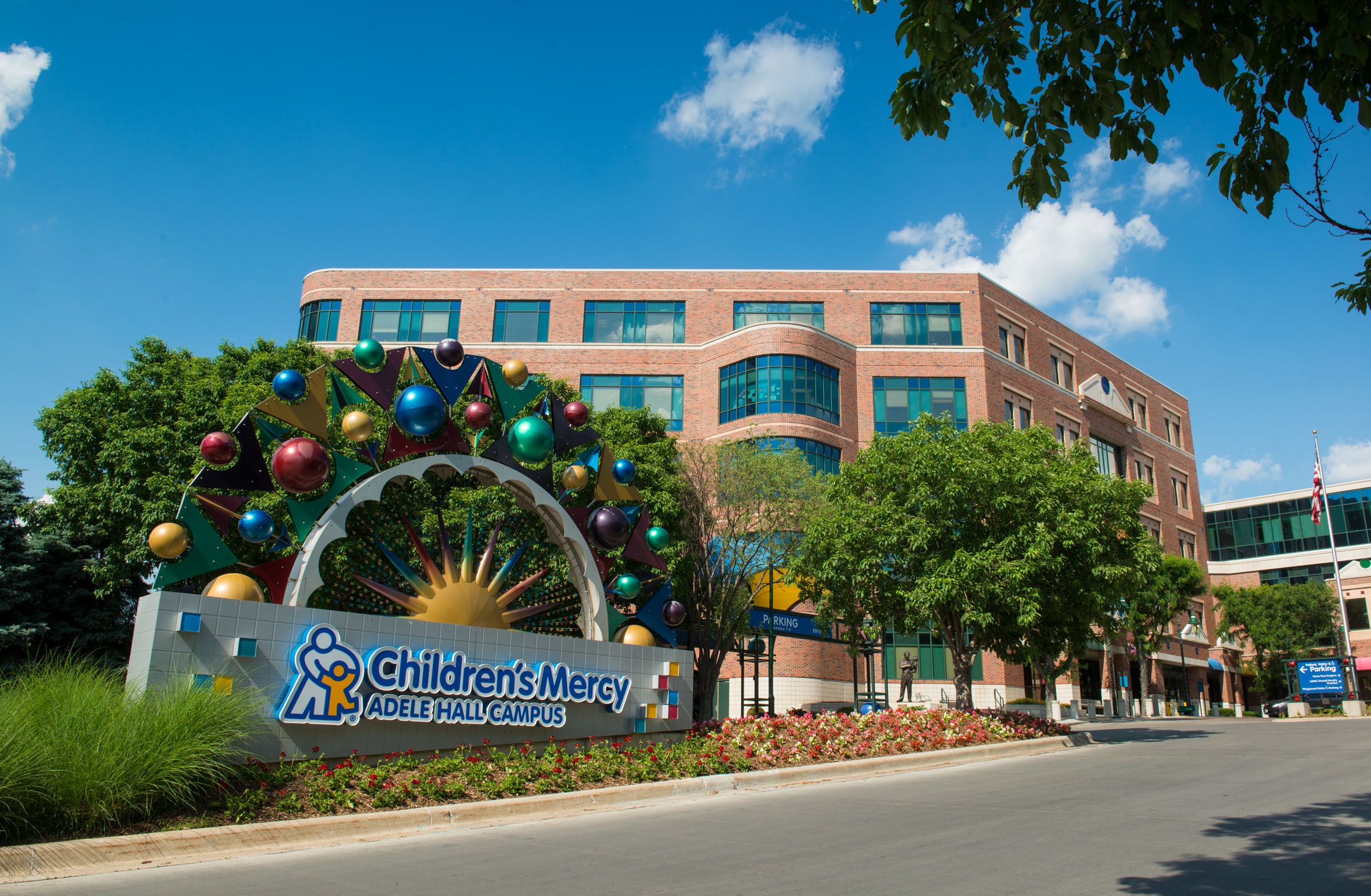 This is an updated photo of the Adele Hall Campus with the new outdoor signage.